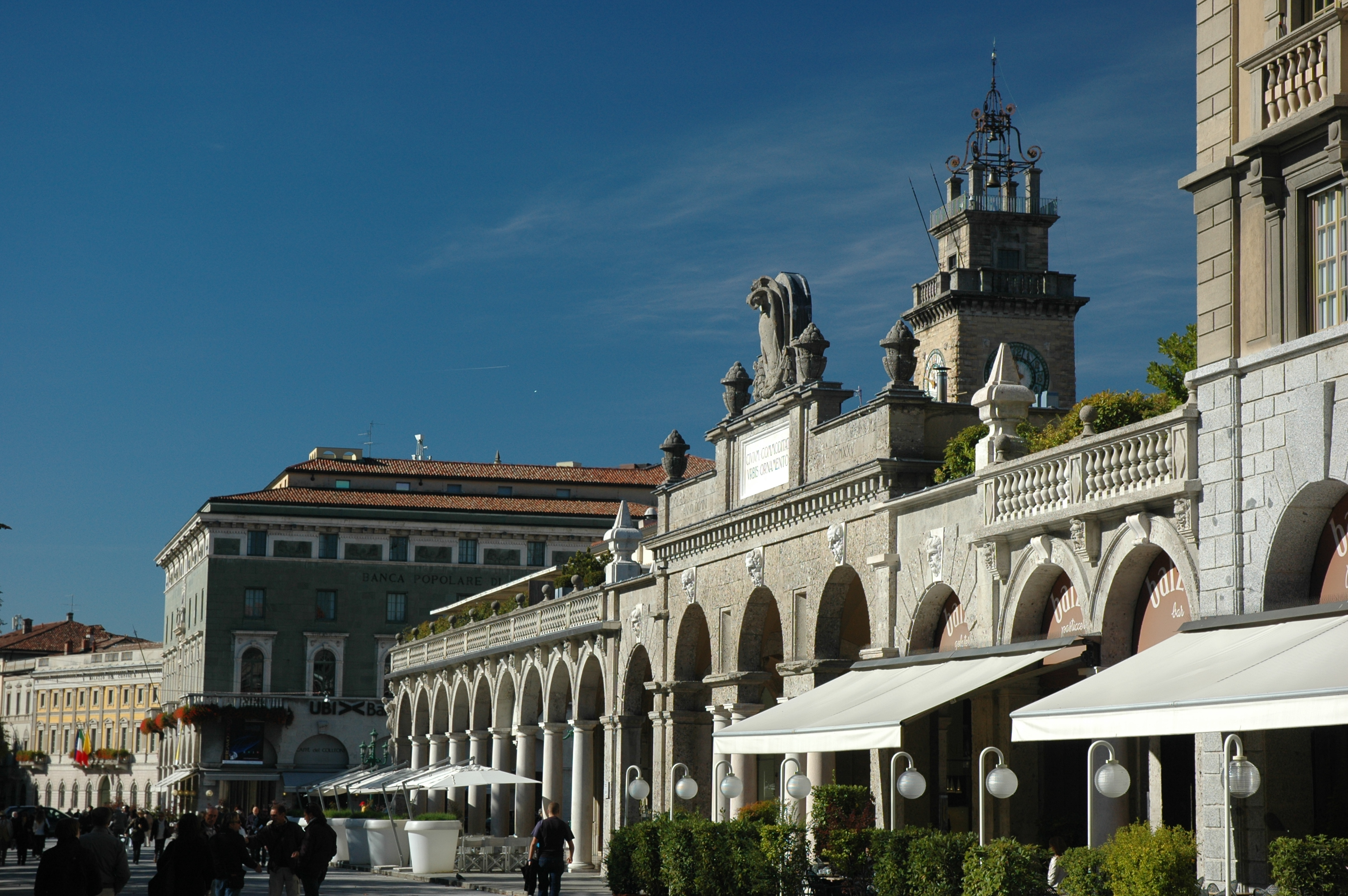 Country : Italy Region : Lombardy Province : Bergamo (BG)